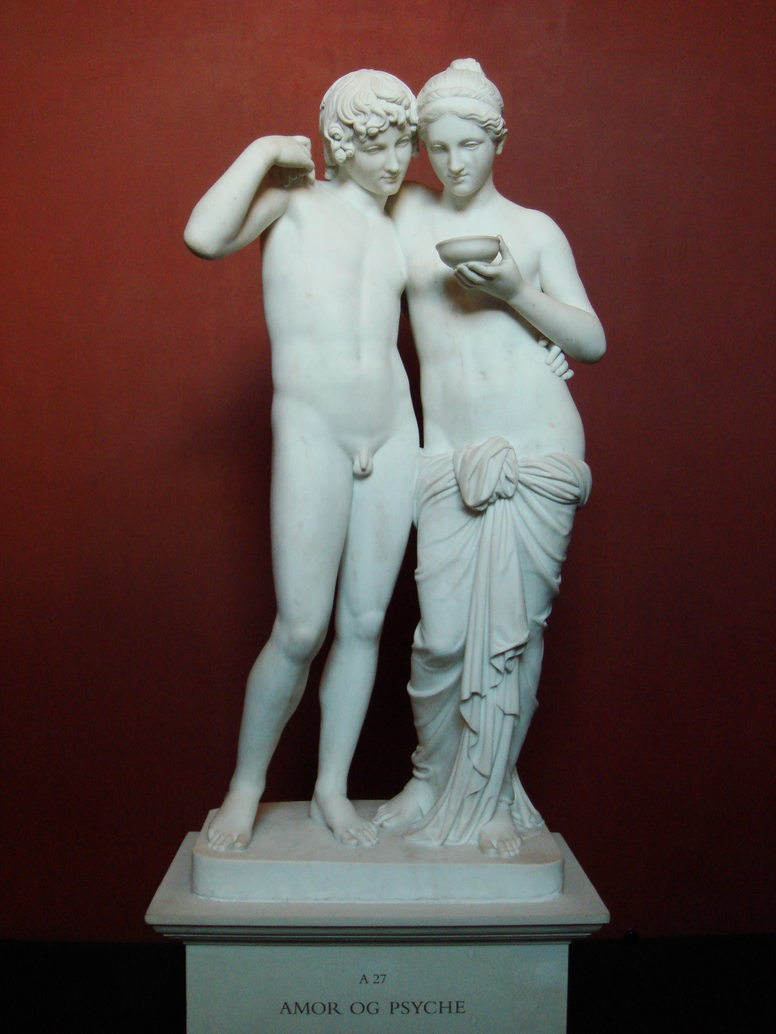 Statue of Amor and Psyche of Bertel Thorvaldsen. Museo Thorvaldsen, Copenhagen. Picture by Stefano Bolognini.